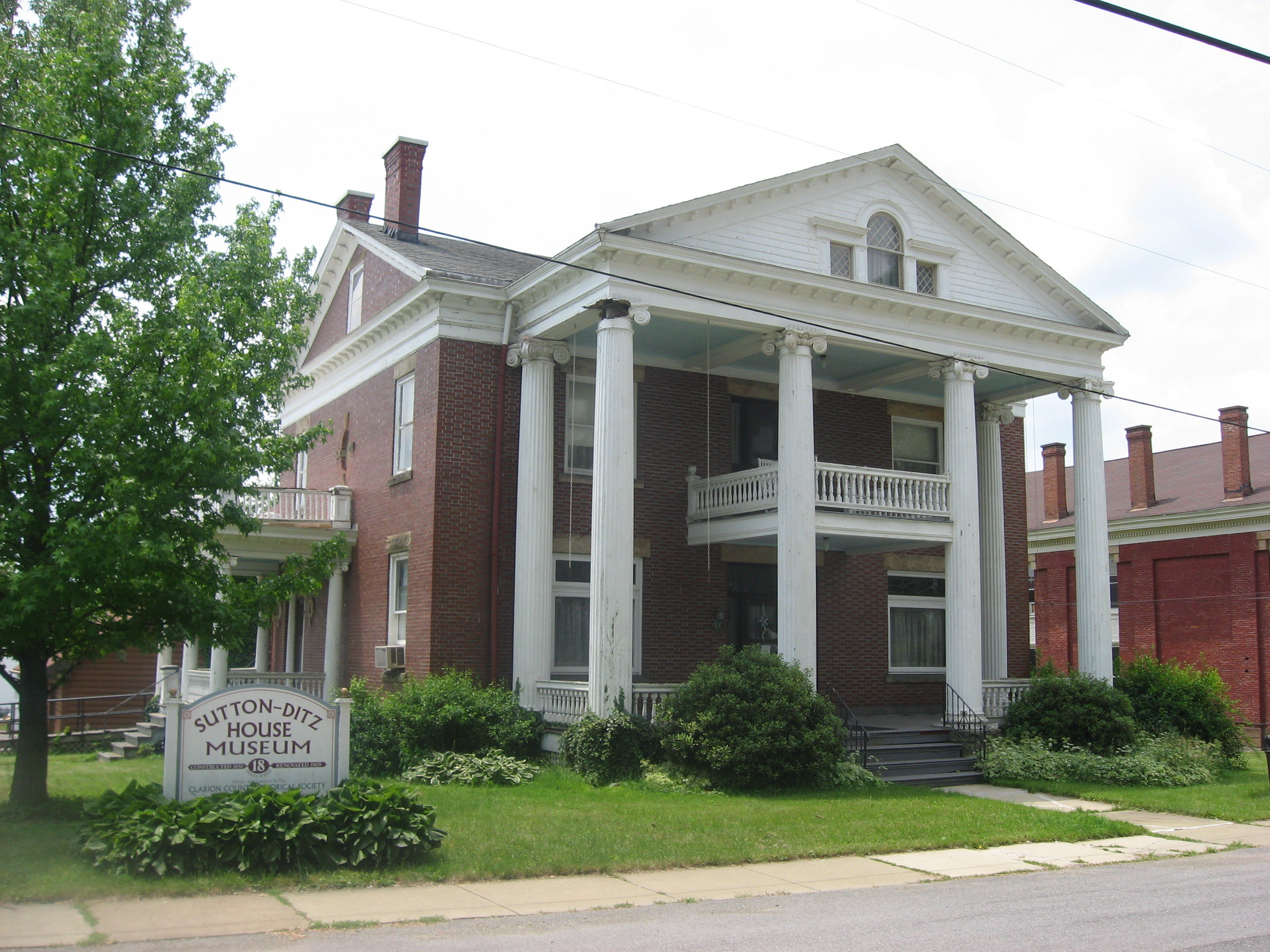 Front and eastern side of the Sutton-Ditz House, located along Pennsylvania Route 68 at 18 Grant Street in Clarion, Pennsylvania, United States. Built in 1847 and later remodelled before conversion into a museum, it is listed on the National Register of Historic Places.